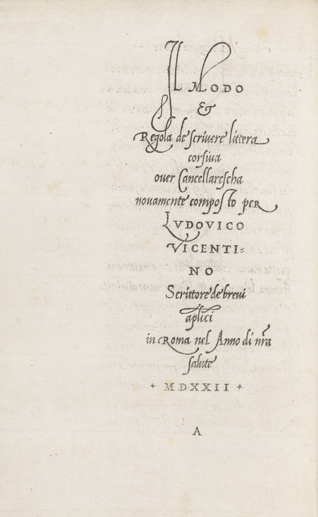 Page from La operina di Ludouico Vicentino, Rome: 1524, by Ludovico Vicentino degli Arrighi (1475-1527). TypW 525.24.162, Houghton Library, Harvard University